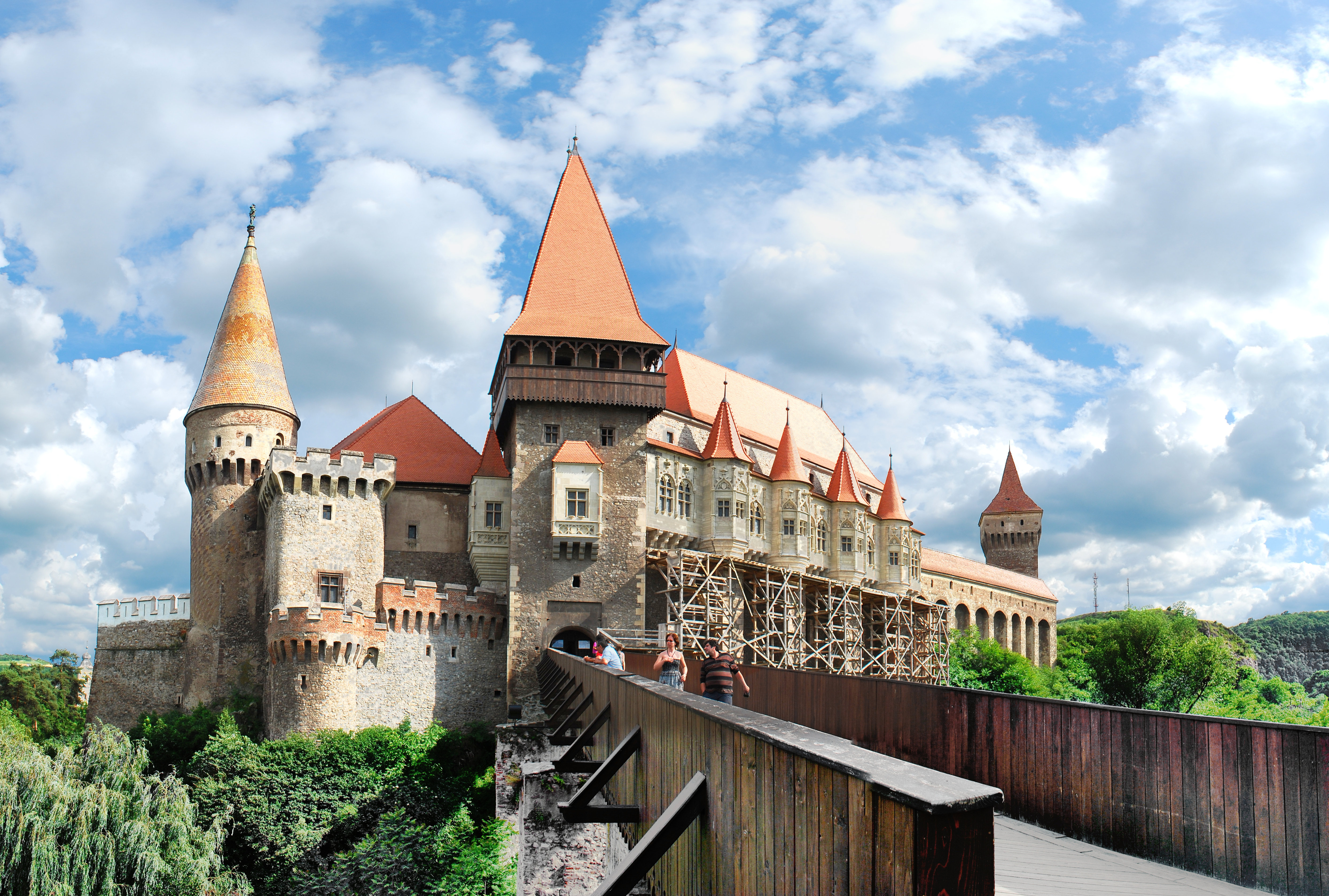 Corvin castle in Hunedoara, RomaniaRomână: Castelul Corvinilor din Hunedoara, România